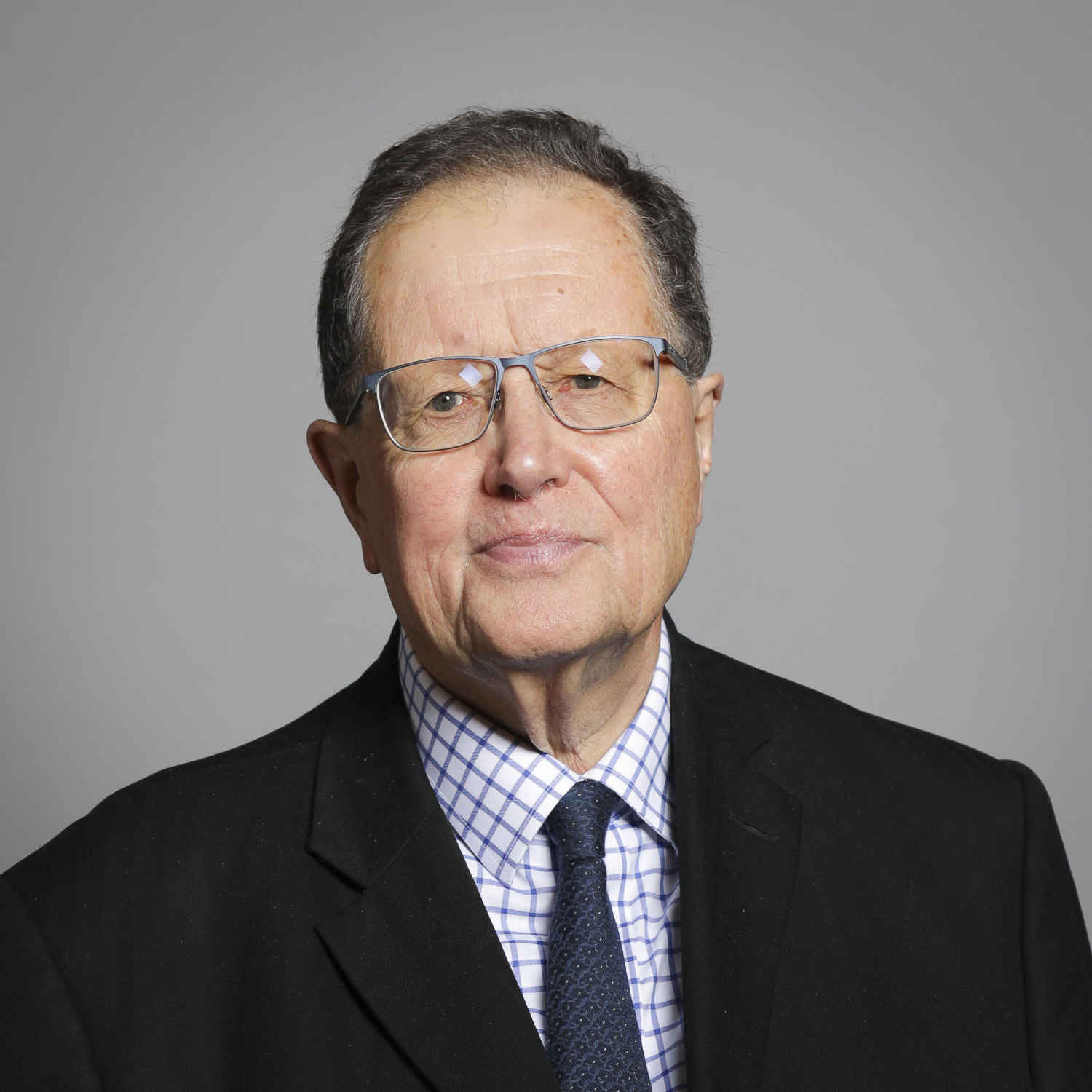 Official portrait of Lord Boswell of Aynho 1×1 portrait of Lord Boswell of Aynho